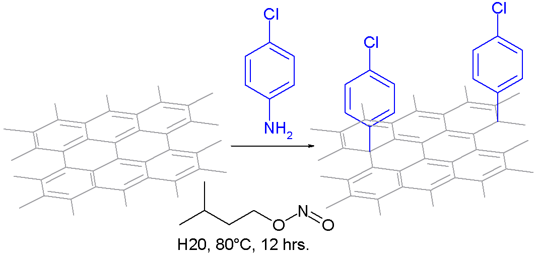 On Water Nanotube Functionalization